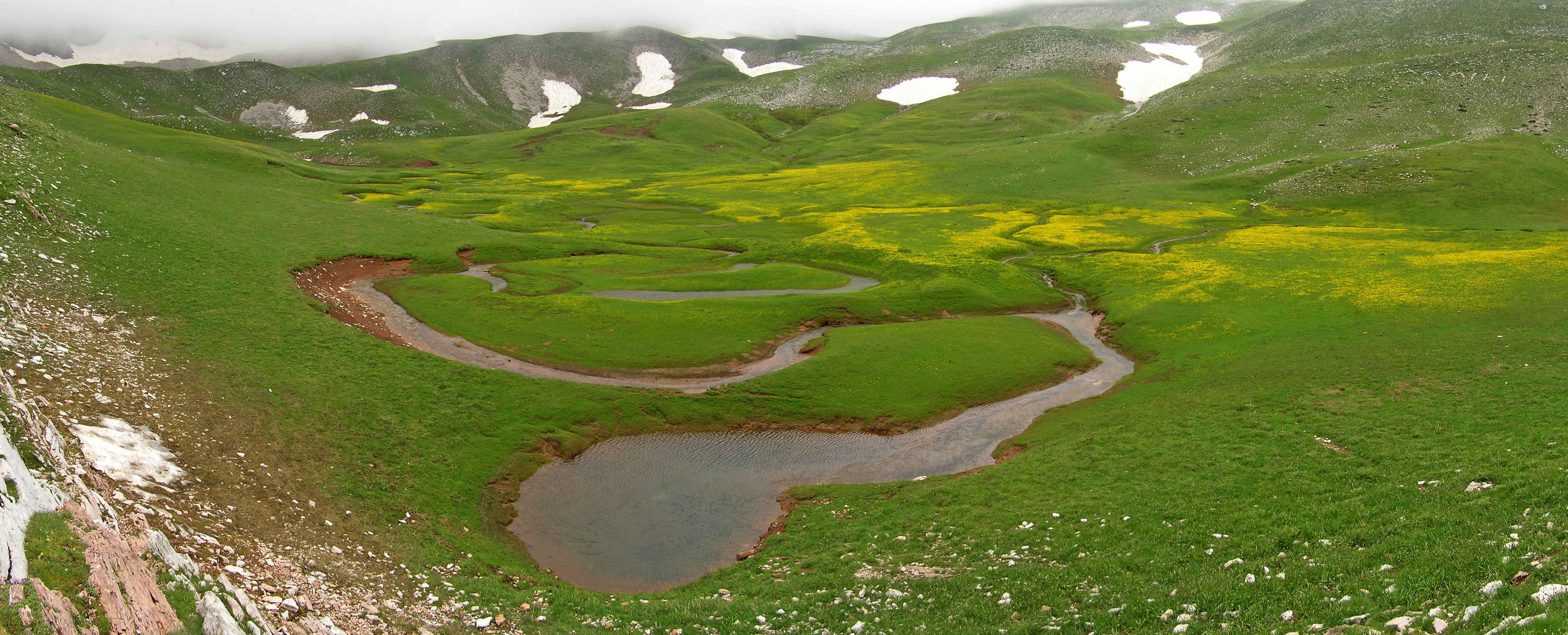 OLYMPUS DIGITAL CAMERA This is a photography of Natura 2000 protected area with ID GR2130007